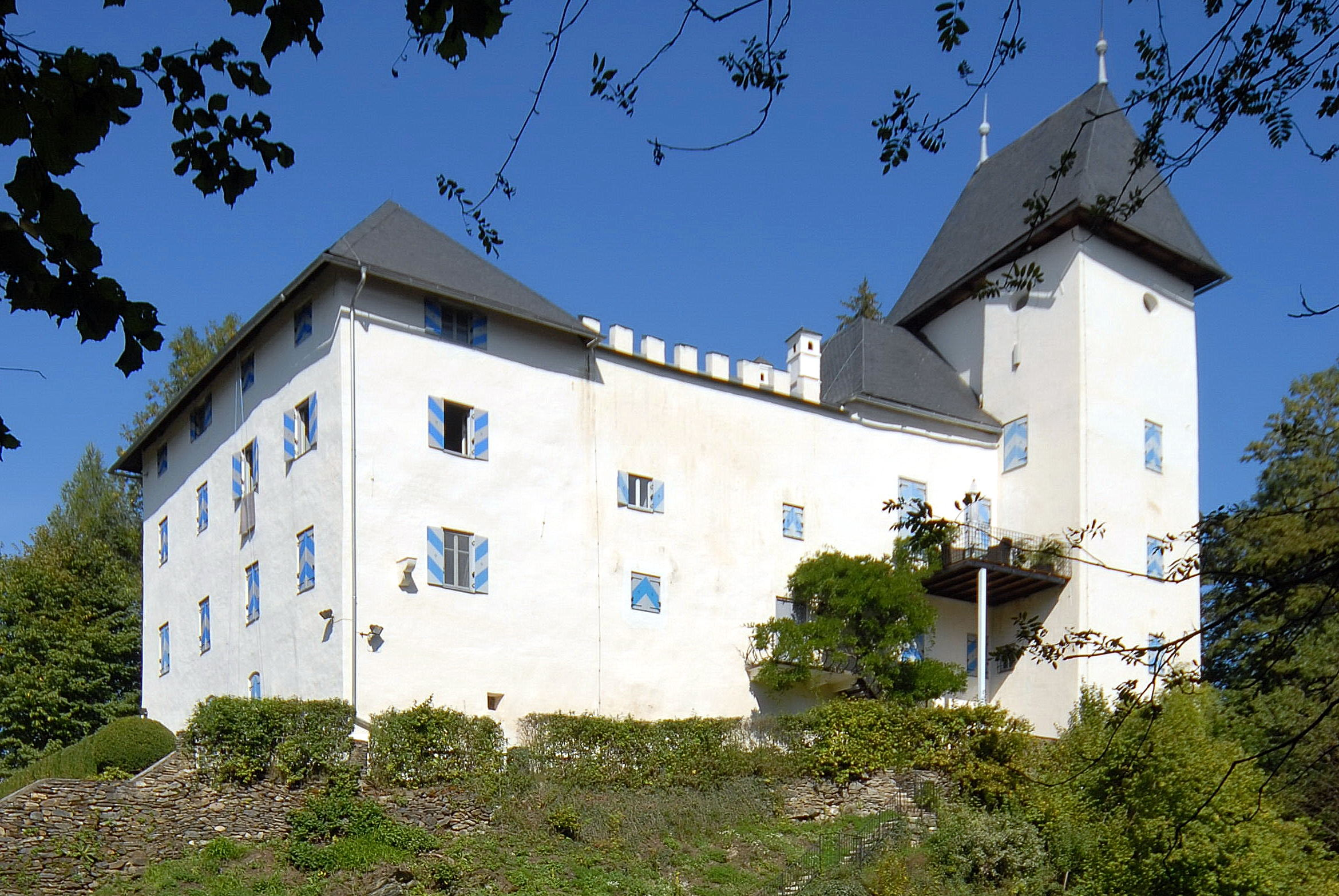 Castle Drasing on Drasingerstrasse #130,municipality Krumpendorf on the Lake Woerth, district Klagenfurt Land, Carinthia, Austria, European Union